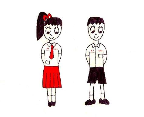 Chiang Rai Witthayakhom School. Uniforms